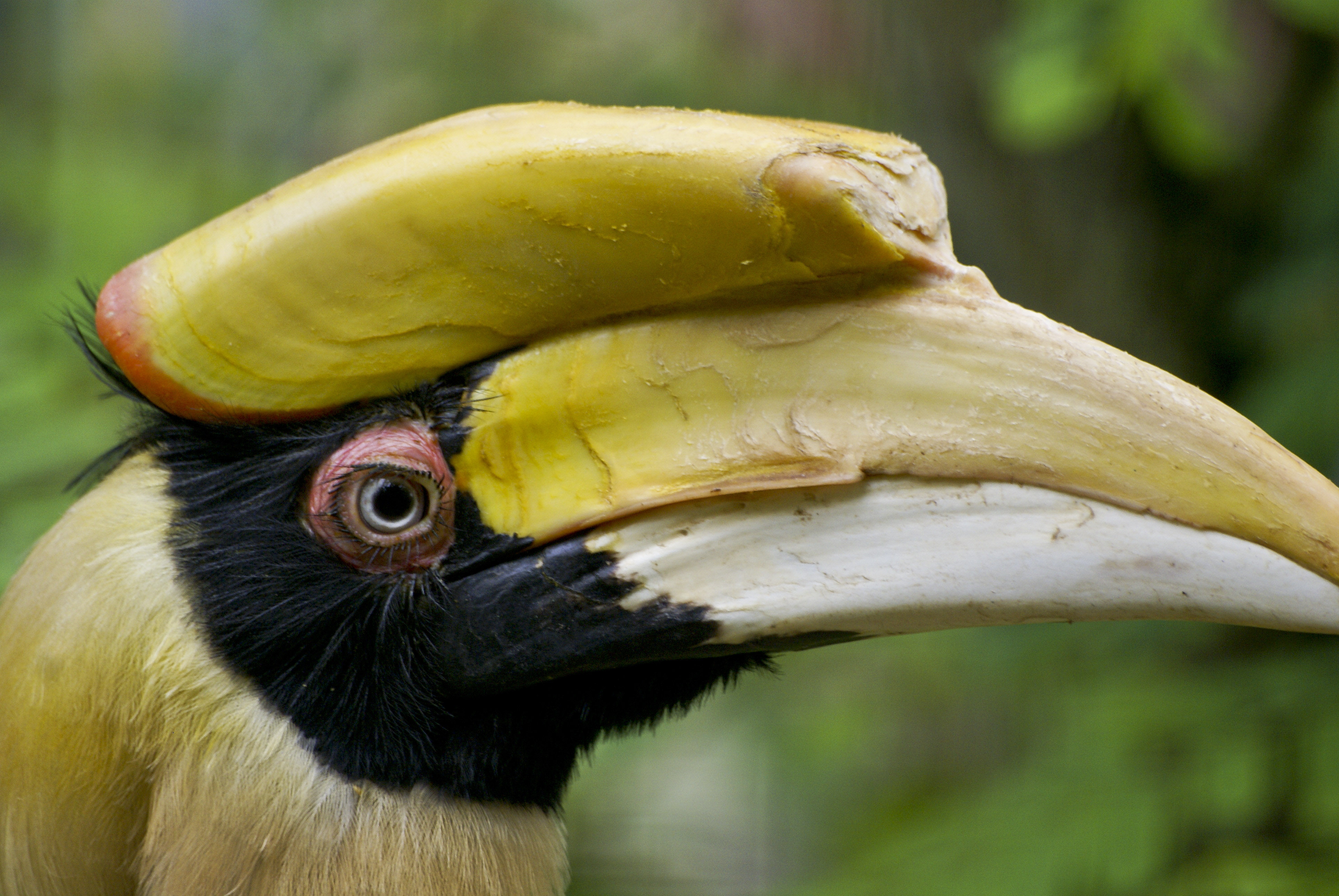 A Great Hornbill at La Palmyre Zoo, Les Mathes, France.